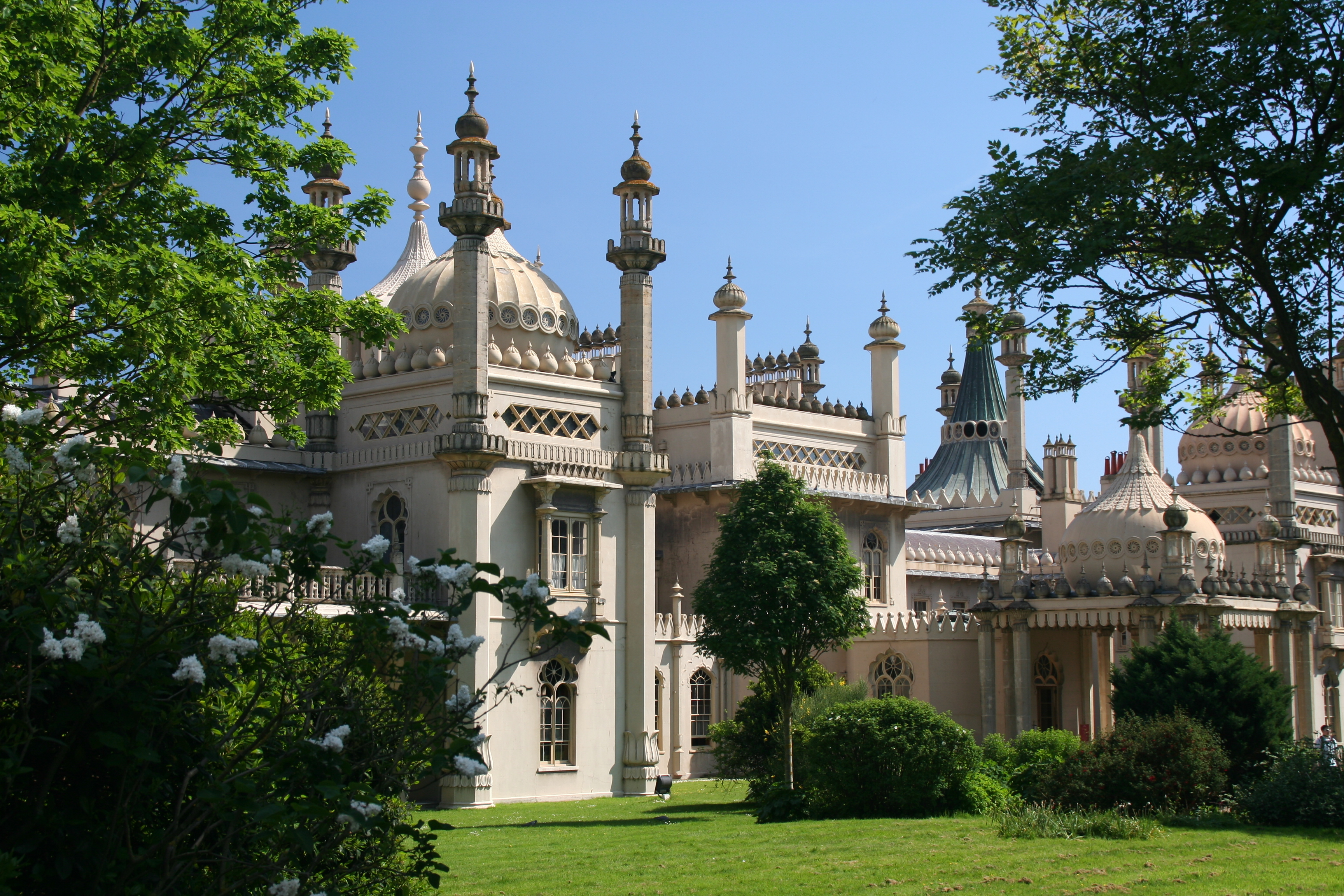 Royal Pavilion in Brighton (UK)